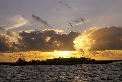 Sunset over Fishball Islet, Caroline Atoll, Kiribati with thousands of Sooty Terns (Sterna fuscata) filling the sky.